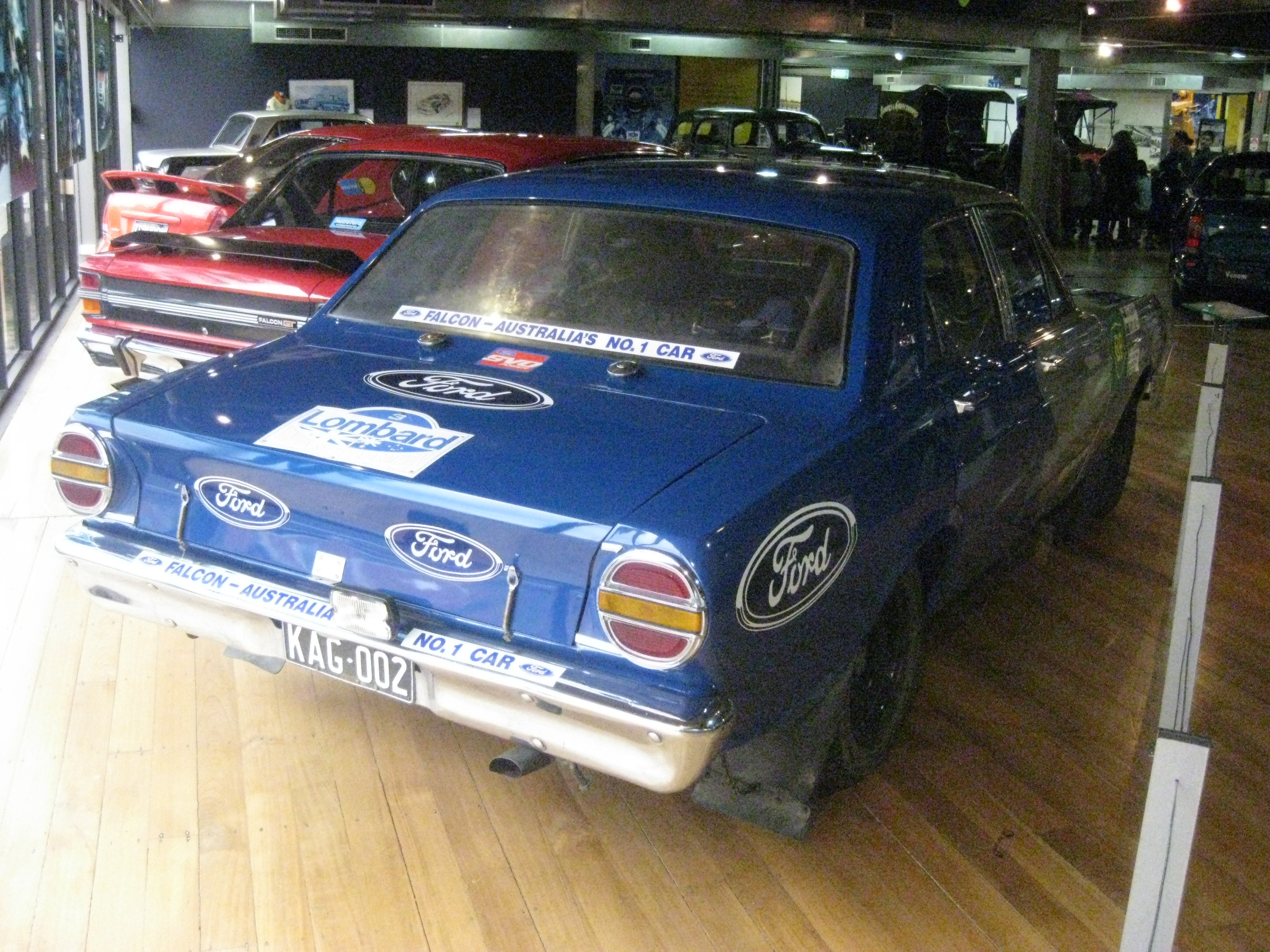 The Ford XT Falcon GT which placed 3rd in the 1968 London-Sydney Marathon. The car was entered by Ford Australia and driven by Ian Vaughan, Bob Forsyth and Jack Ellis. Ford Australia won the Teams’ Prize with their entries placing 3rd, 6th and 8th from 56 finishers. Ian Vaughan and Barry Lake placed 2nd in the 25th anniversary re-run of the event in 1993.